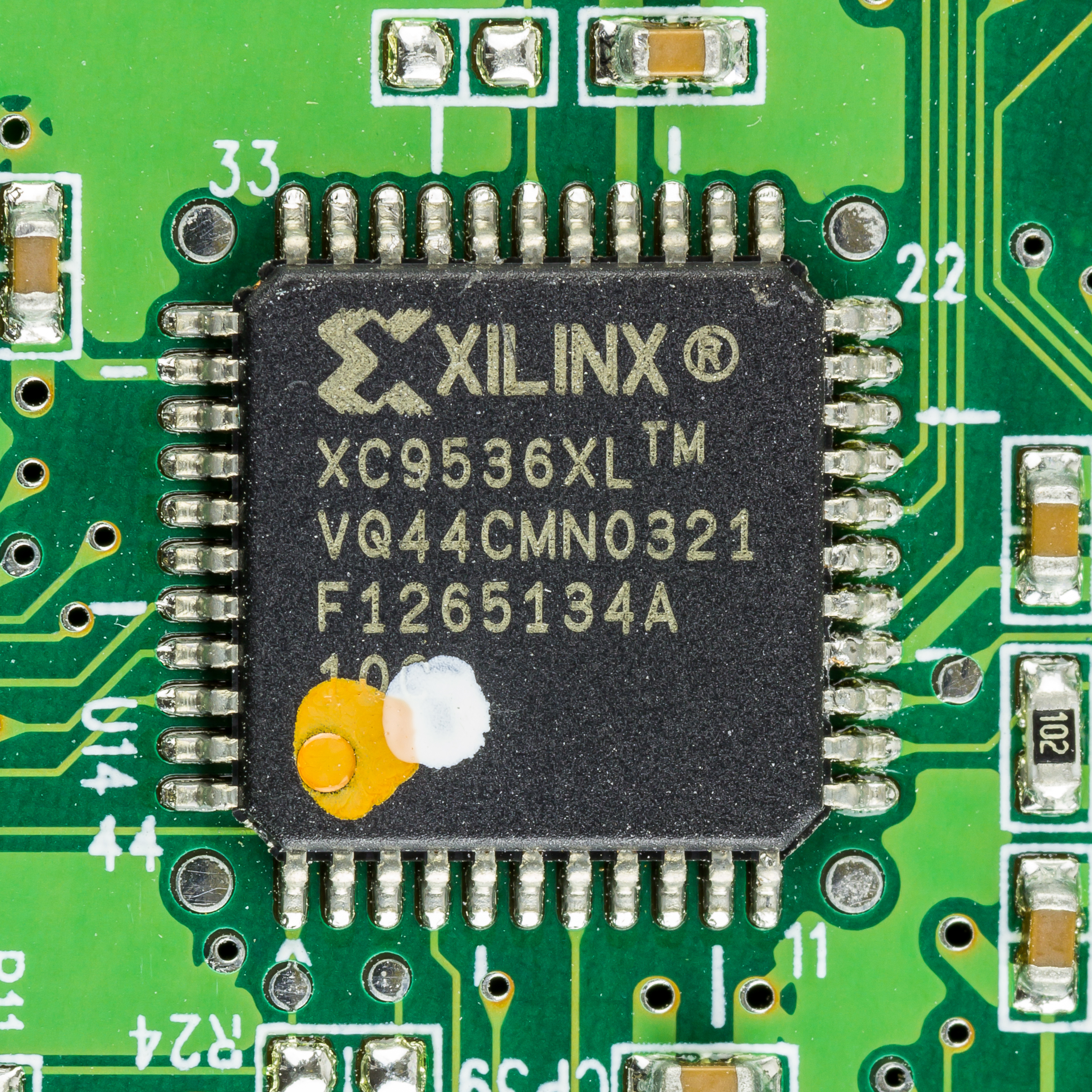 ZyXEL ZyAIR B-2000 - Xilinx XC9536XL - High Performance CPLD